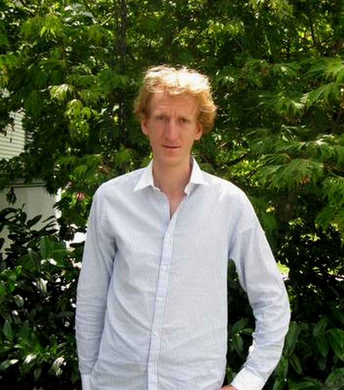 Ben Green, Oberwolfach 2010